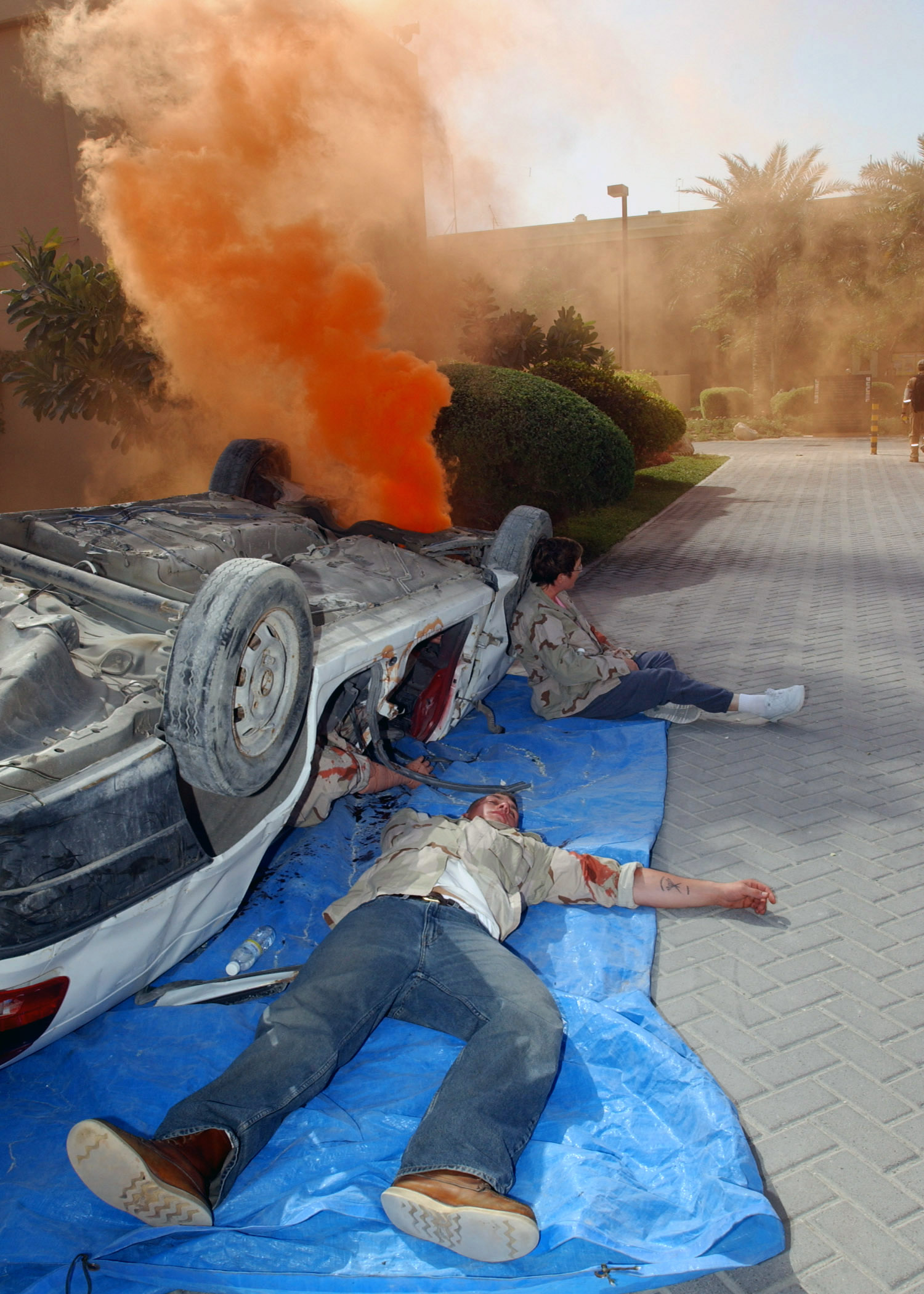 Manama, Bahrain (Mar. 3, 2004) – Bomb victim role-players sit and lay by an overturned car awaiting emergency personnel to arrive during Exercise Desert Sailor 2004 aboard Naval Support Activity Bahrain. Exercise Desert Sailor is an annual exercise to ensure emergency response efforts are well coordinated with local Bahraini directorates in case of an actual emergency. U.S. Navy photo by Journalist 3rd Class Shawnee McKain. (RELEASED)